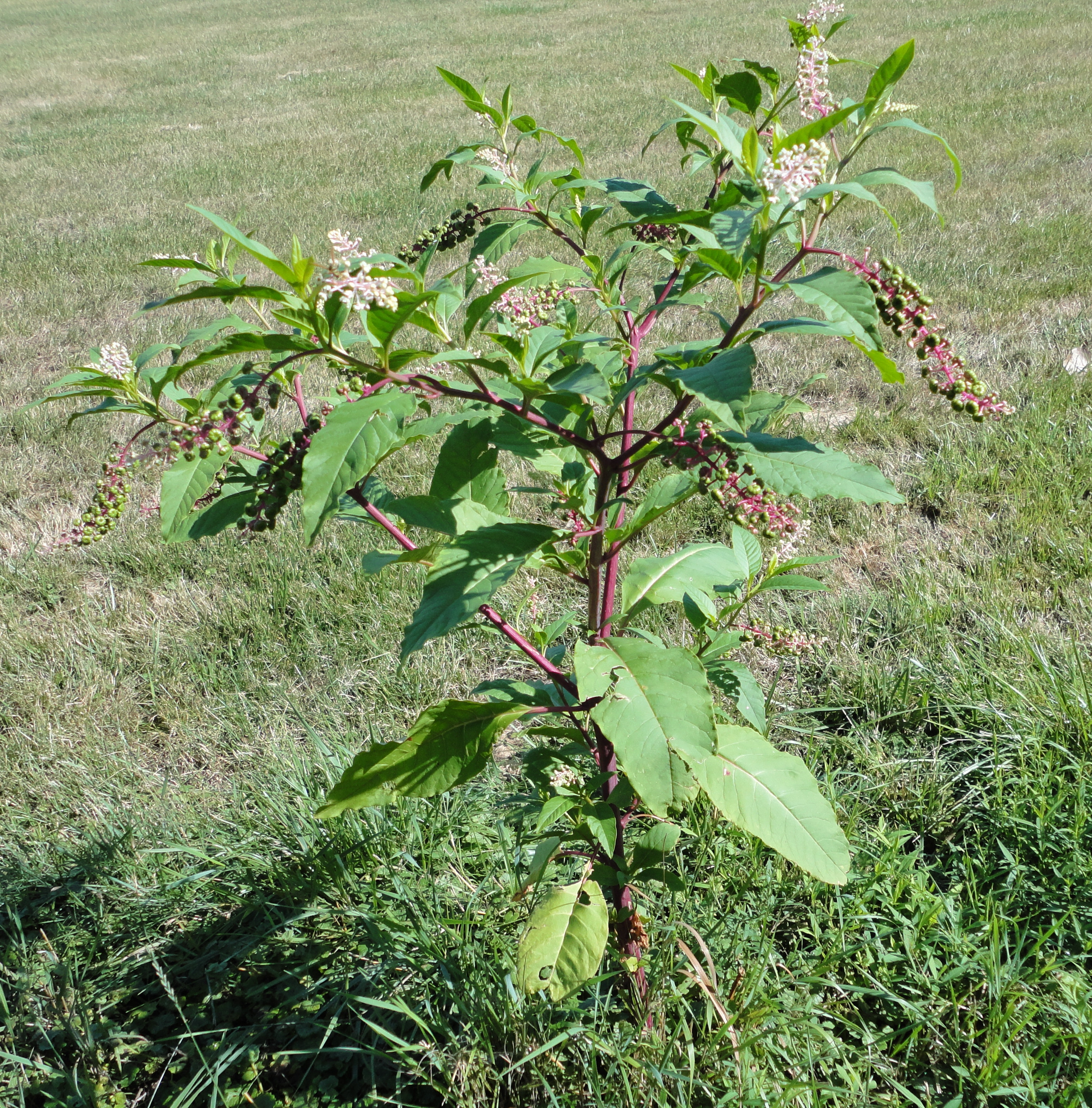 Entire plant view of Phytolacca americana (Pokeweed) in a field in Macomb County, Michigan.